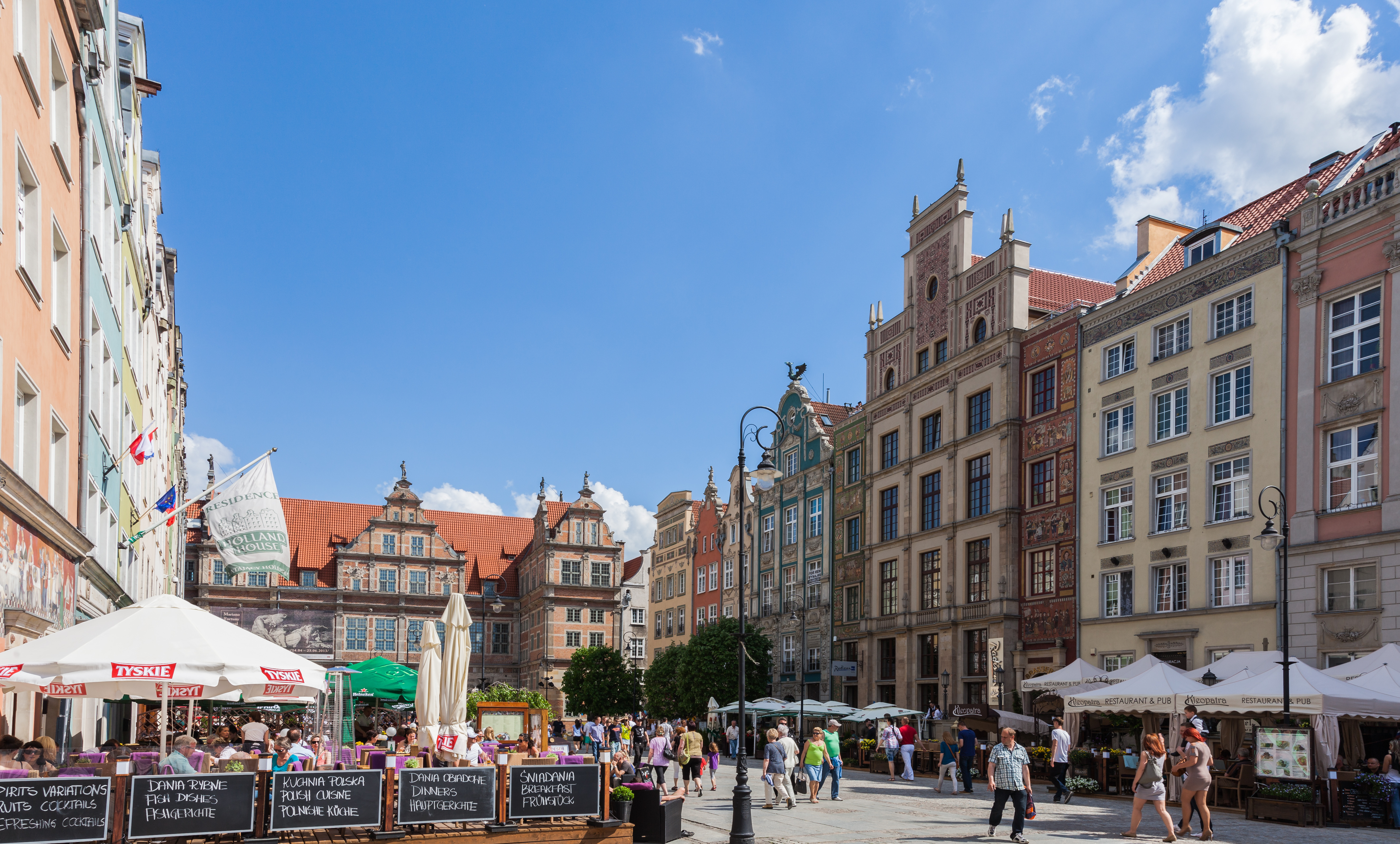 Green Gate, Gdansk, Poland